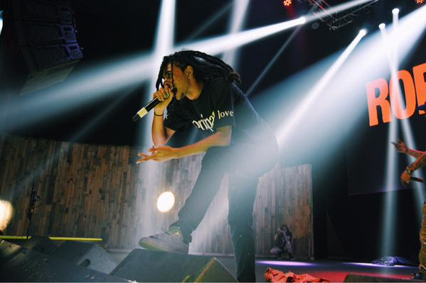 Robb Banks performing live at Summerfest 2015